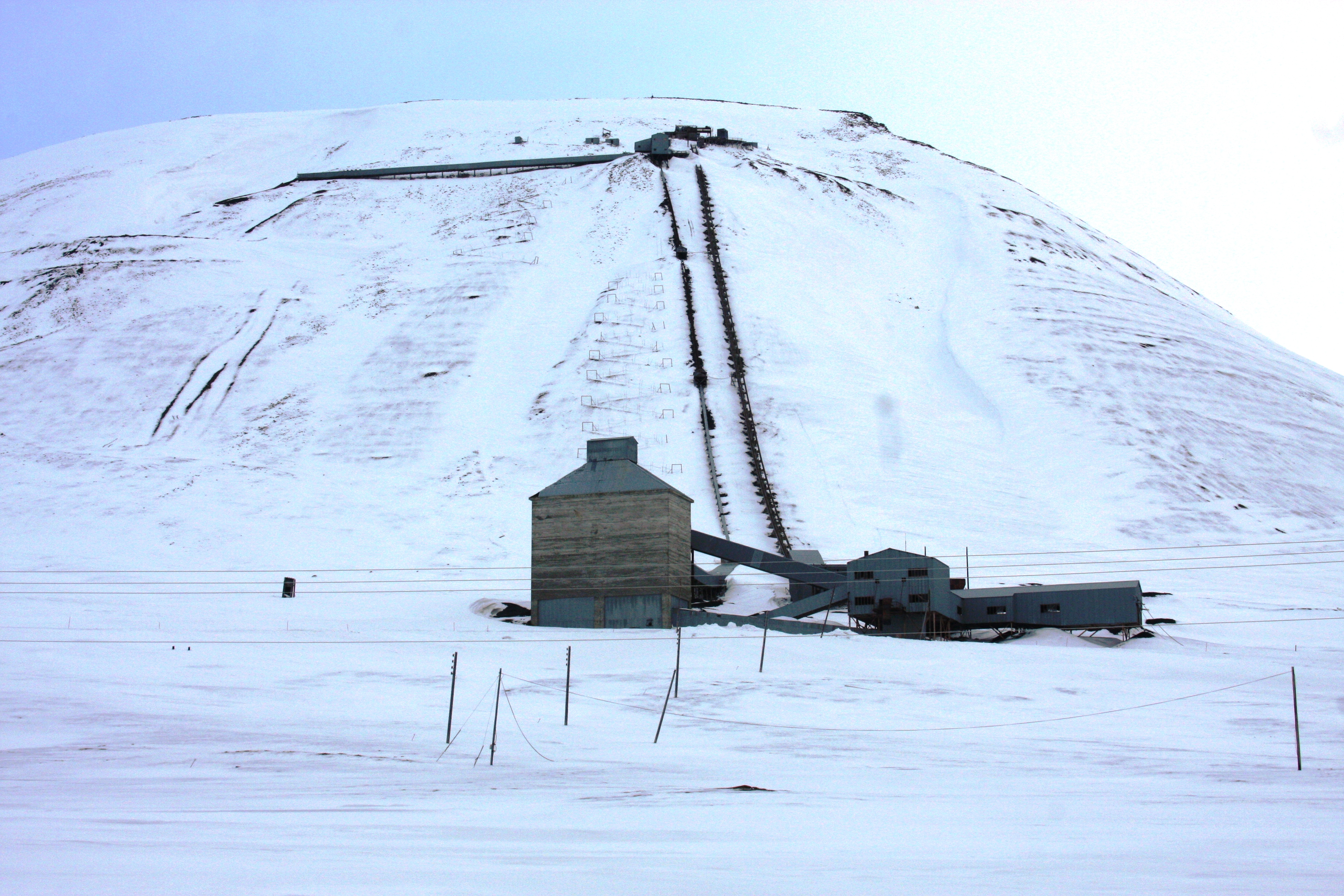 SNSK mine No 6, east of Longyearbyen